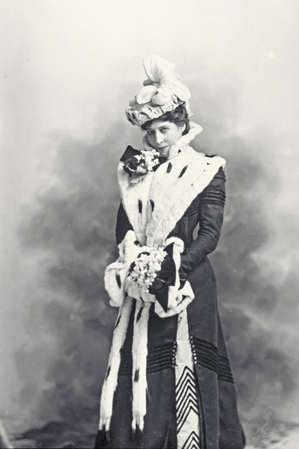 Lillie Langtry